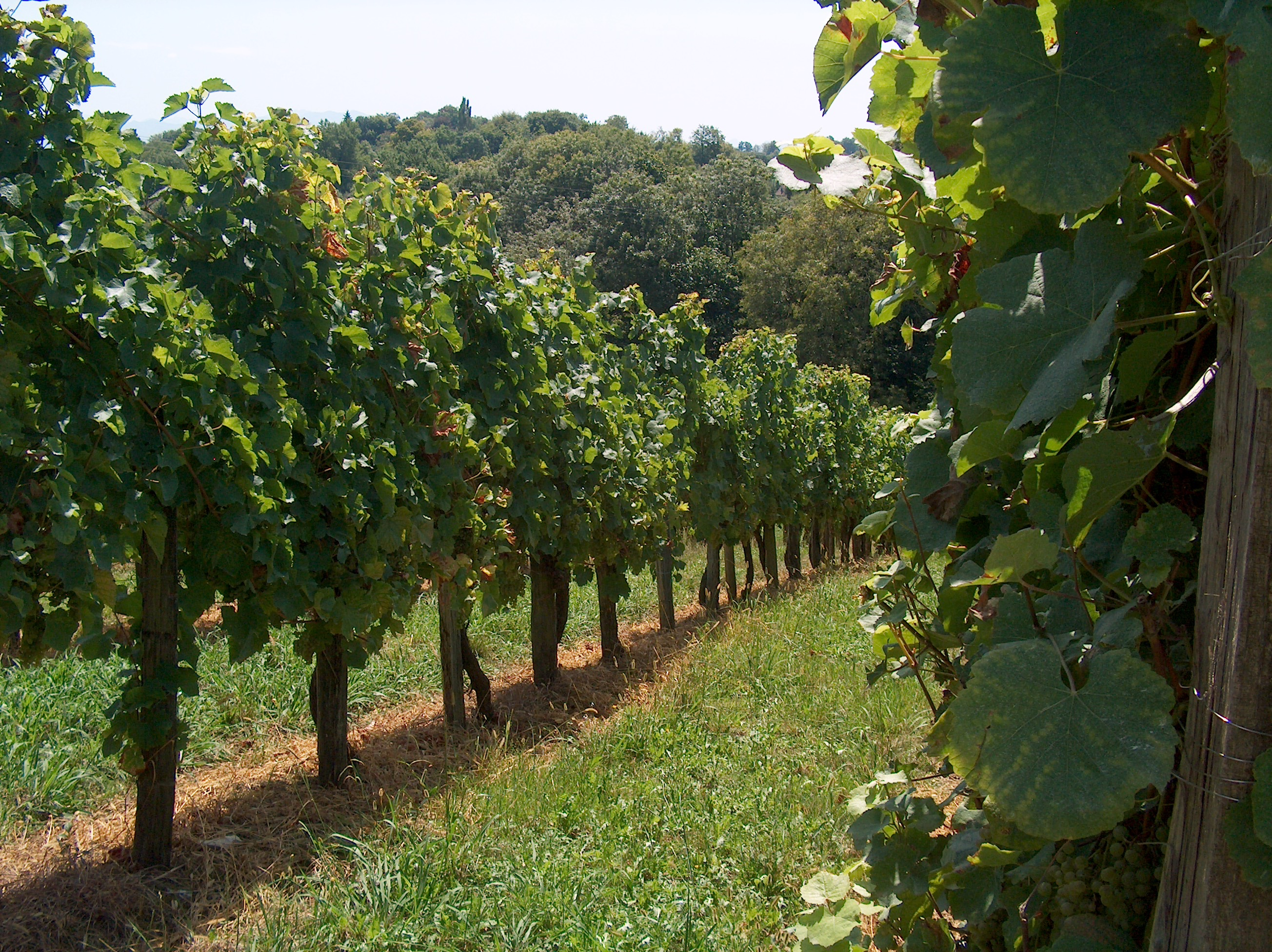 vineyards of Jurançon. Saint-Faust.